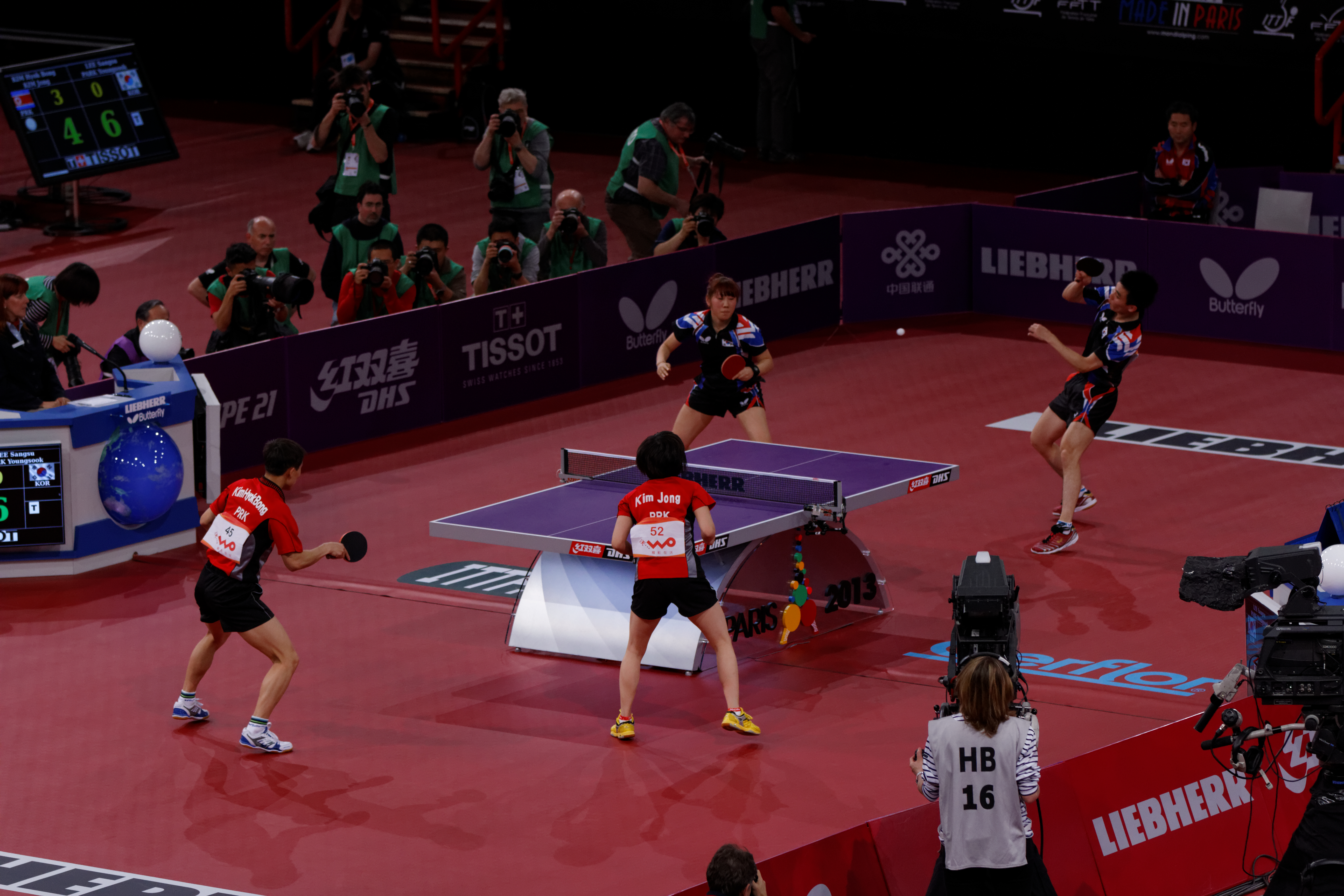 2013 World Table Tennis Championships, Paris. Mixed Doubles Final. Lee Sang-Su and Park Young-Sook vs Kim Hyok-Bong and Kim Jong.